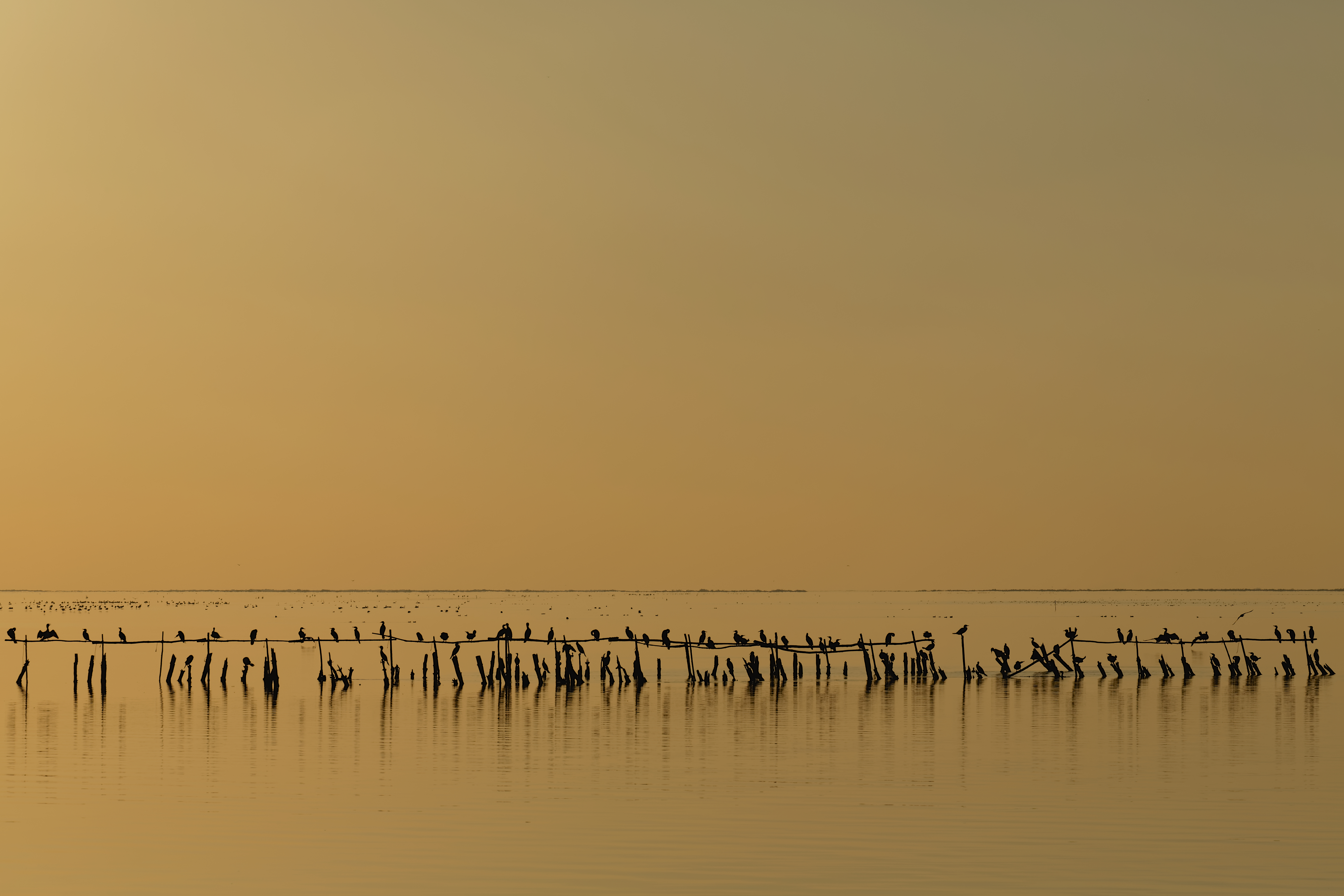 Cormorants at dusk on the étang de Vaccarès, a salt water lagoon in the Parc naturel régional de Camargue, France.